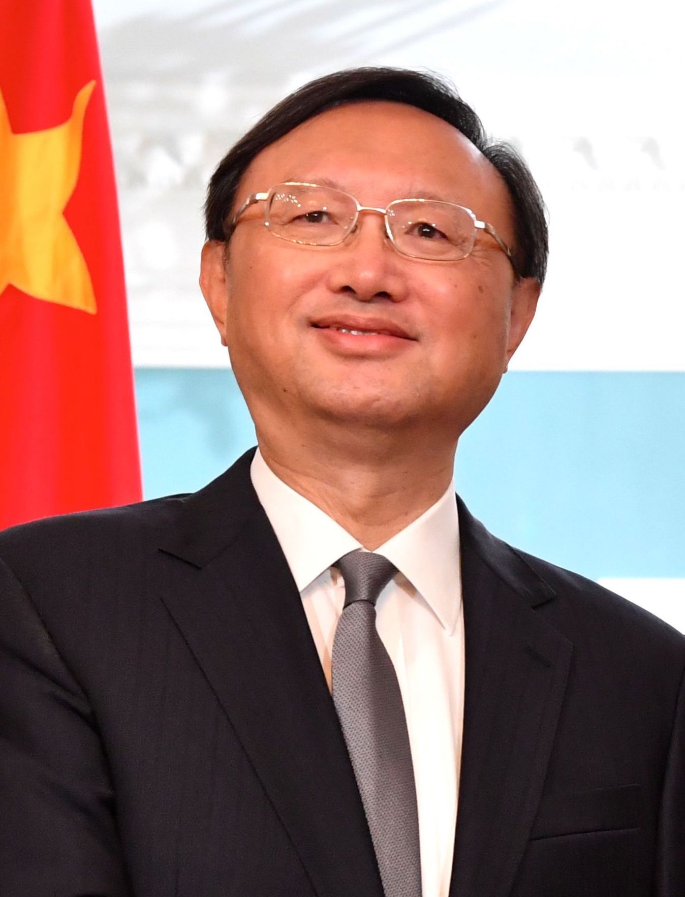 Yang Jiechi